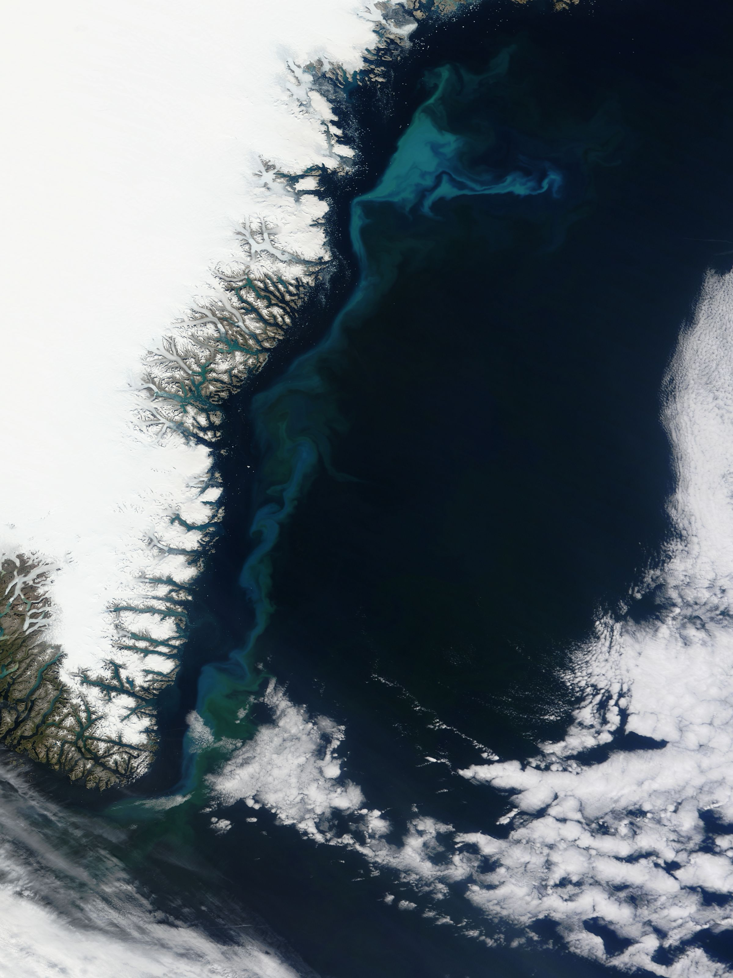 Photo-like image of a phytoplankton bloom off eastern Greenland. The bloom blends shades of milky blue, turquoise, and green, created by different species of phytoplankton growing in the cold, nutrient-rich waters. Likely shaped by the East Greenland Current, the bloom extends along the south-east coast of Greenland. The phytoplankton bloom is not the only source of colour in the scene. The brilliant white of the ice sheet fades to gray in places along the shore where old ice is exposed. Tinted faintly brown like the craggy brown rocks that channel them, glaciers seep from the ice sheet into fjords, rivers of ice draining the great ice sheet. The glaciers give way to green-blue water, milky with the fine sediment created as the ice grinds over rock. These waters and the deep black-blue waters of the Atlantic Ocean are dotted with icebergs. No more than tiny white specks at this scale, the icebergs resemble tiny grains of salt floating on the water’s surface.